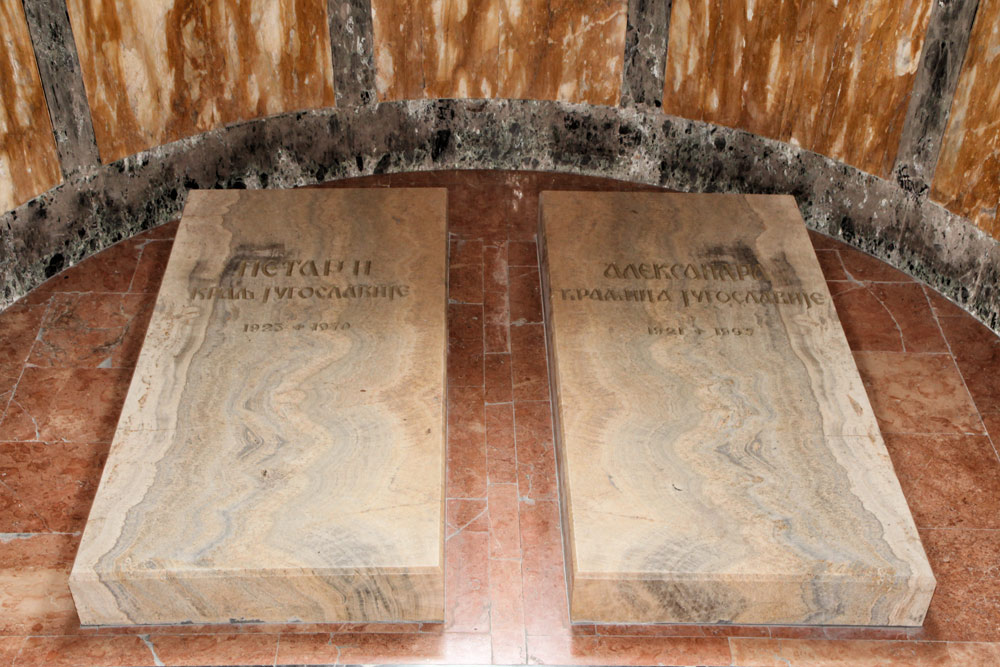 The Graves of King Peter II of Yugoslavia and his queen Alexandra in the crypt of the church of St.George at Oplenac, Serbia.